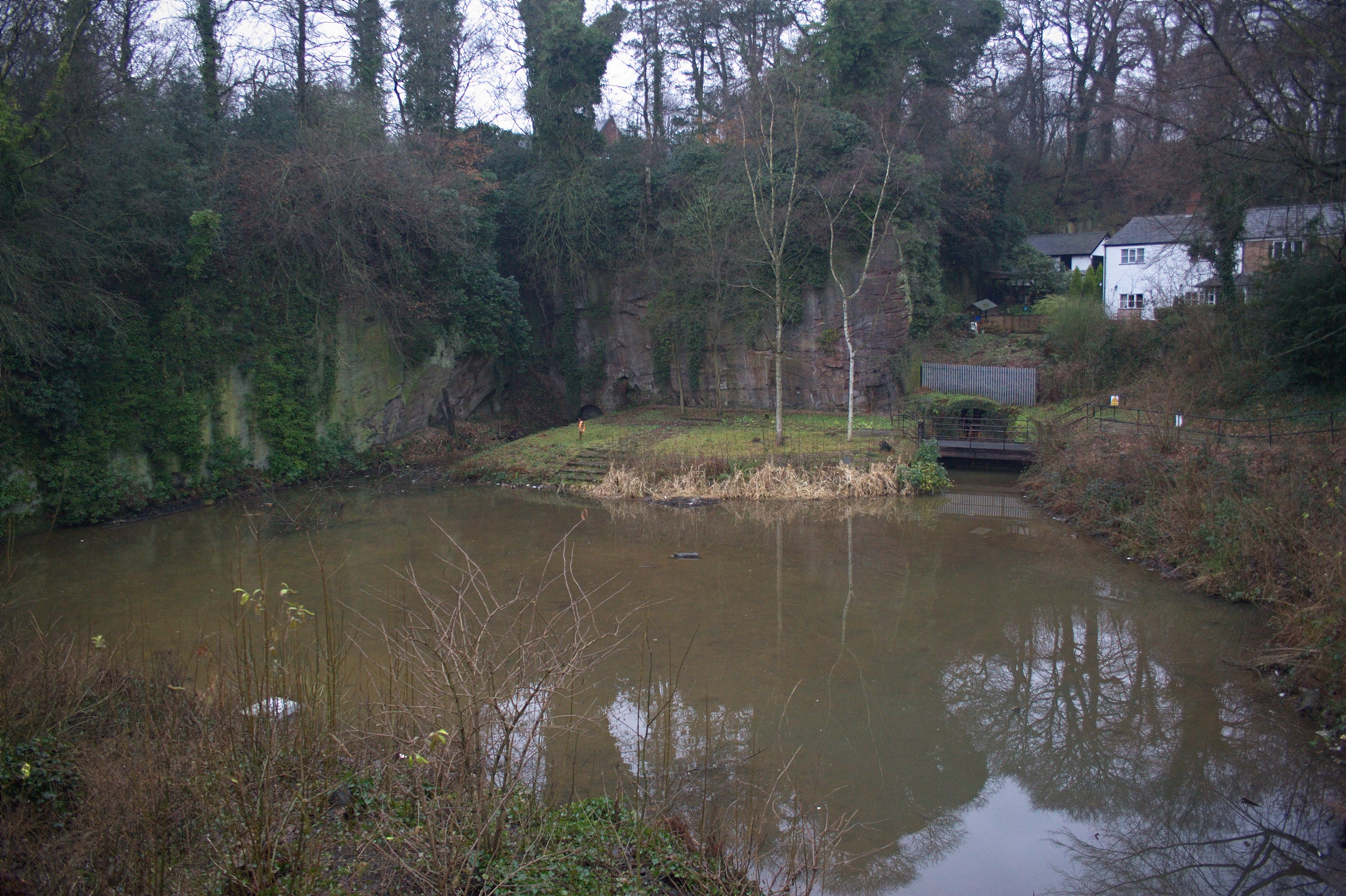 Worsley Delph, in Worsley, Greater Manchester. The two entrances to the Duke of Bridgewater's mines are clearly visible. The steps in the centre are a modern construction. A Starvationer can be seen partially submerged against the wall on the left.